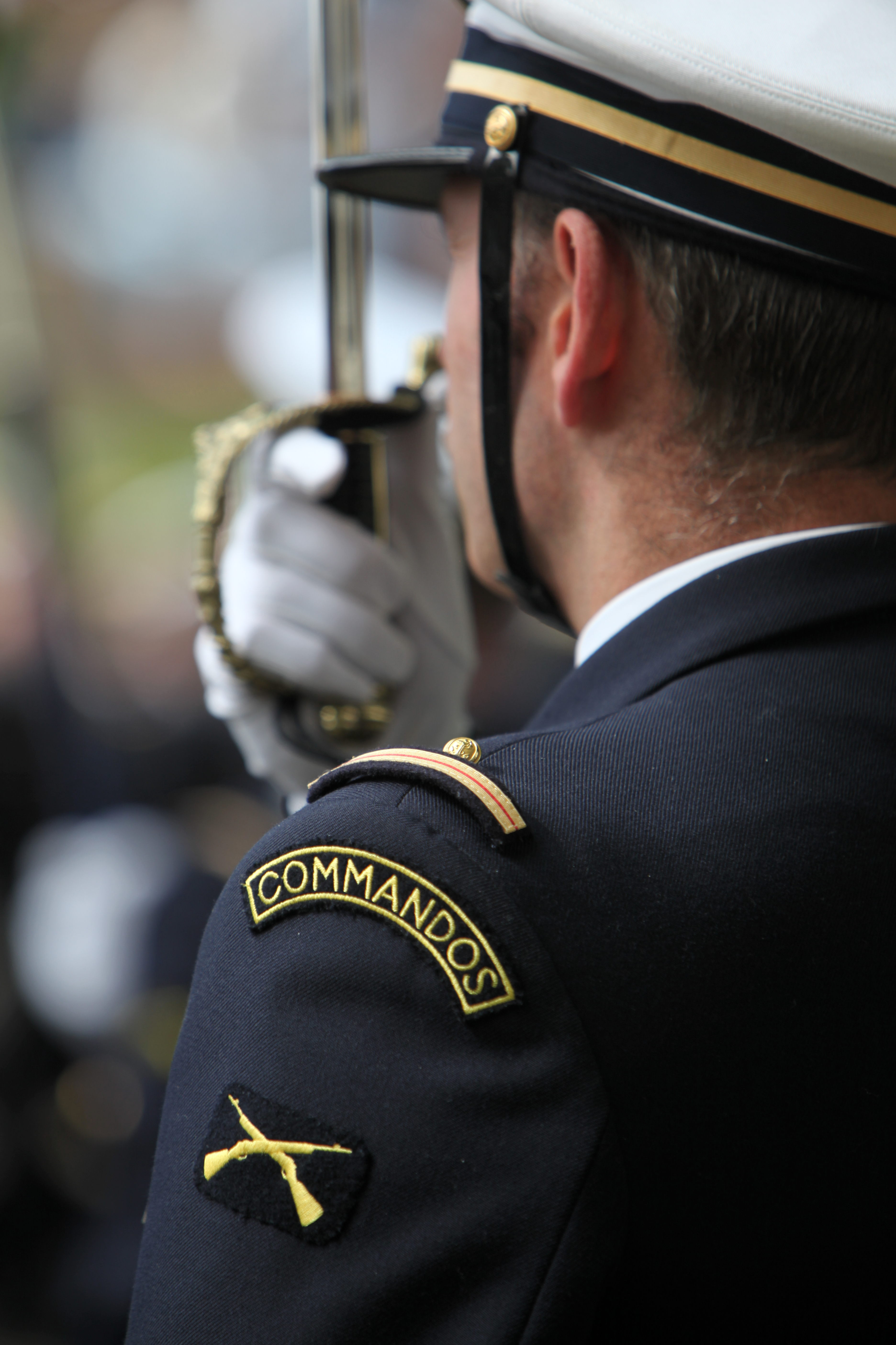 Non-commissioned officer of the French Navy wearing the insignia for the Commandos Marine